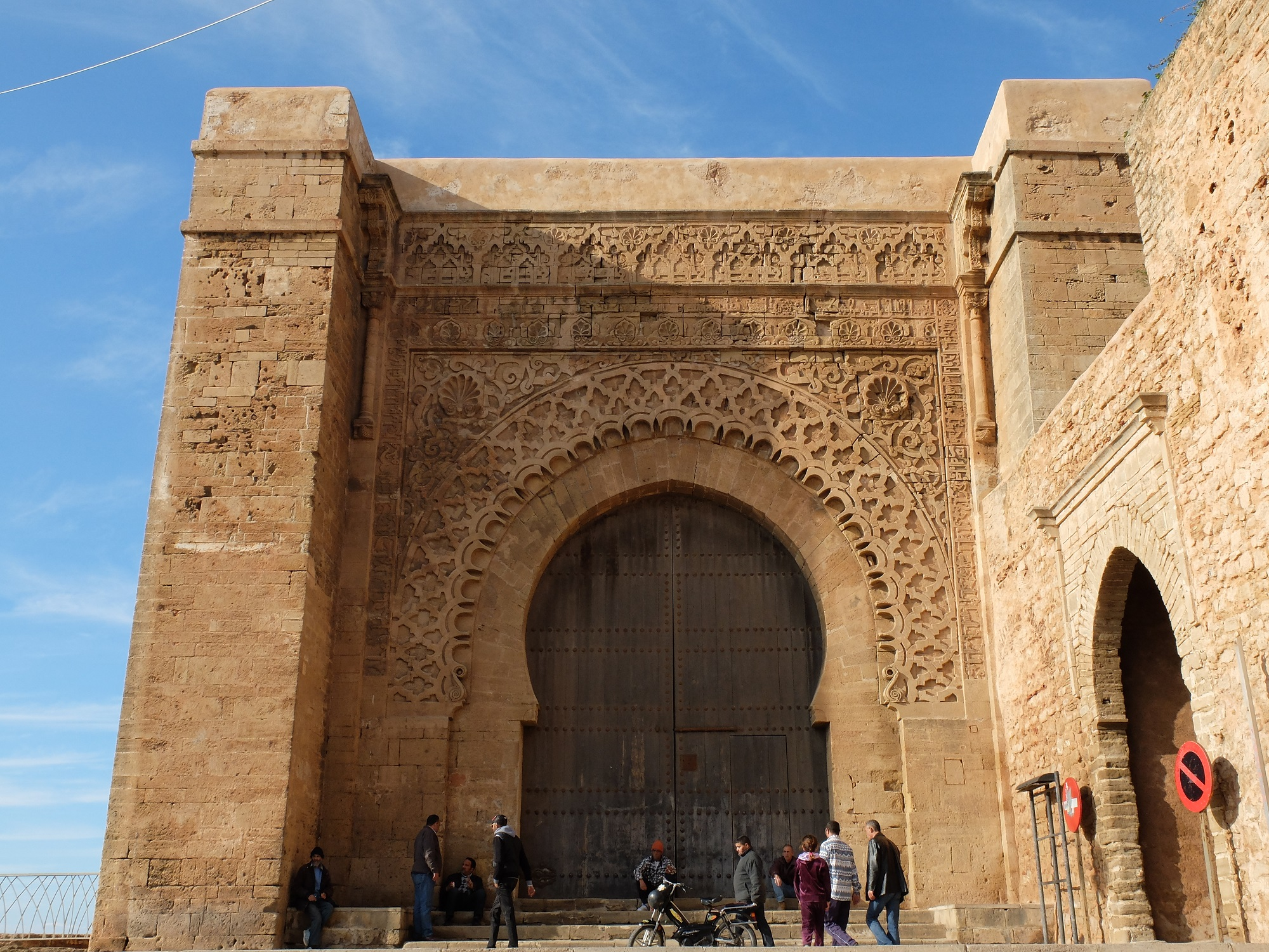 Bab Oudaia, the ceremonial main gate of the Kasbah of the Oudaias (Udayas), built around 1195 by the Almohad caliph Ya'qub al-Mansur.